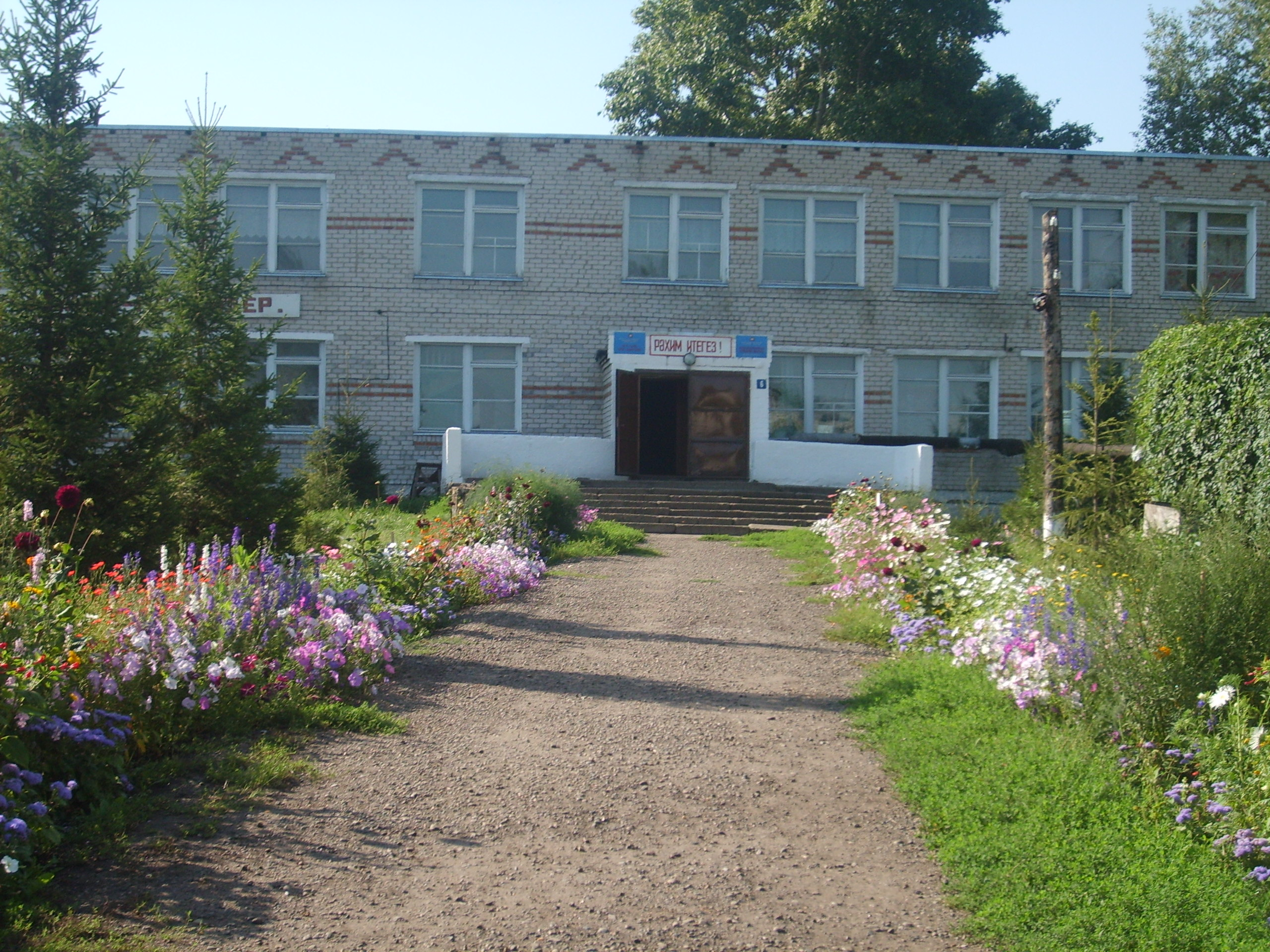 Malaya Tsilna School